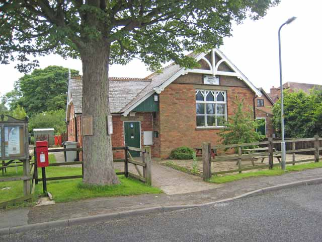 Great Carlton Village Hall According to the plaque, originally the Church Institute, built 1902.